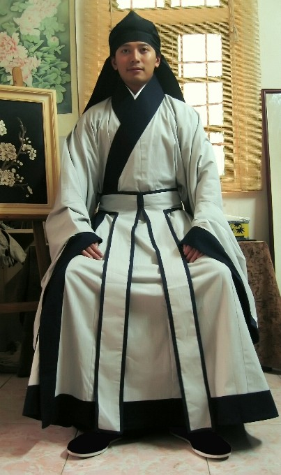 Shenyi (深衣) - Men's Chinese traditional clothing (hanfu)